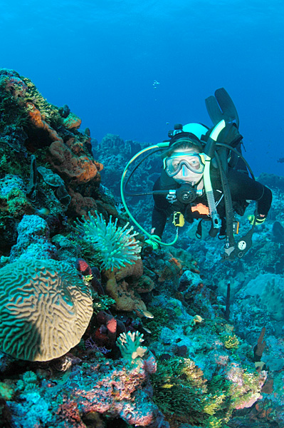 Scuba diver over reef with anemone at Monito Island, Puerto Rico